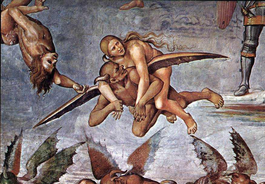 SIGNORELLI, Luca The Damned in Hell Fresco Chapel of San Brizio, Duomo, Orvieto